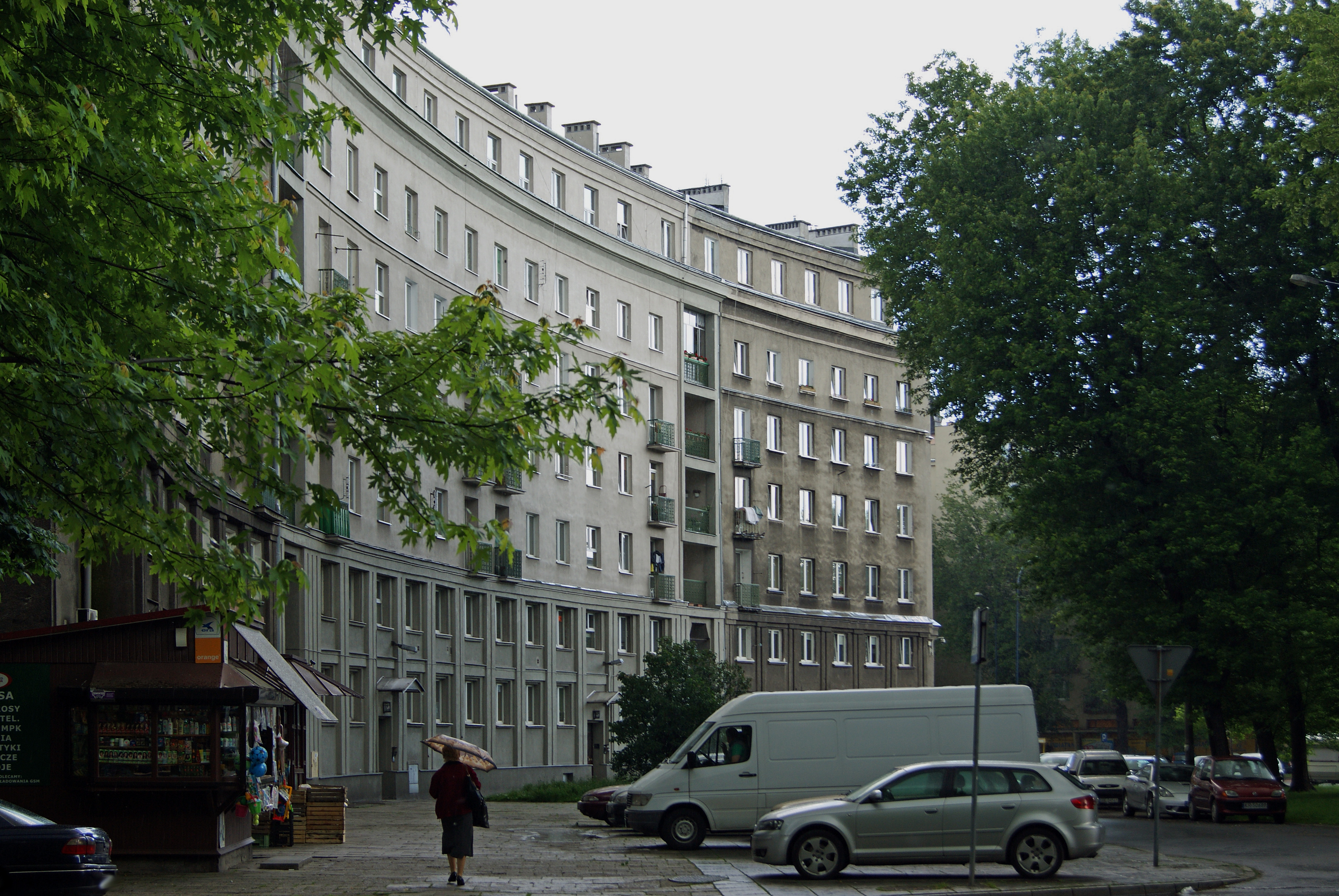 7 Centrum C Estate, Nowa Huta, Krakow, Poland